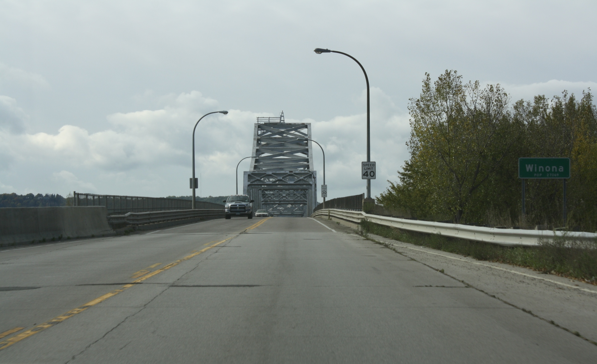 Looking west at the sign for Winona, Minnesota while traveling on a bridge over the Mississippi River. The bridge is the east terminus for Minnesota State Highway 43 and the west terminus for Wisconsin Highway 54.